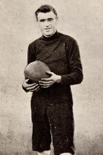 Photograph of Arthur Newbound from the 1910 Weekly Times Victorian Footballer Postcard Series